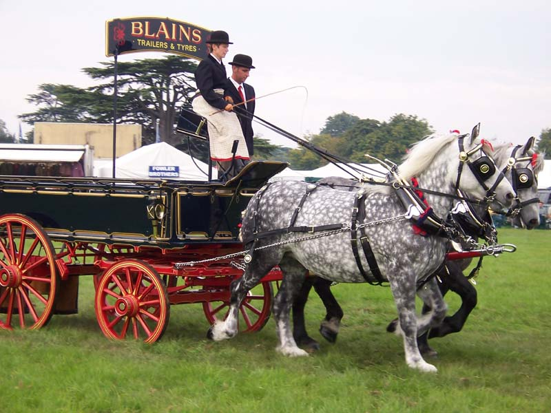 A pair of Percheron horses pulling a wagon.